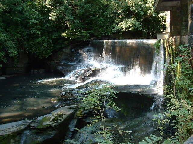 Upper falls at Aberdulais.